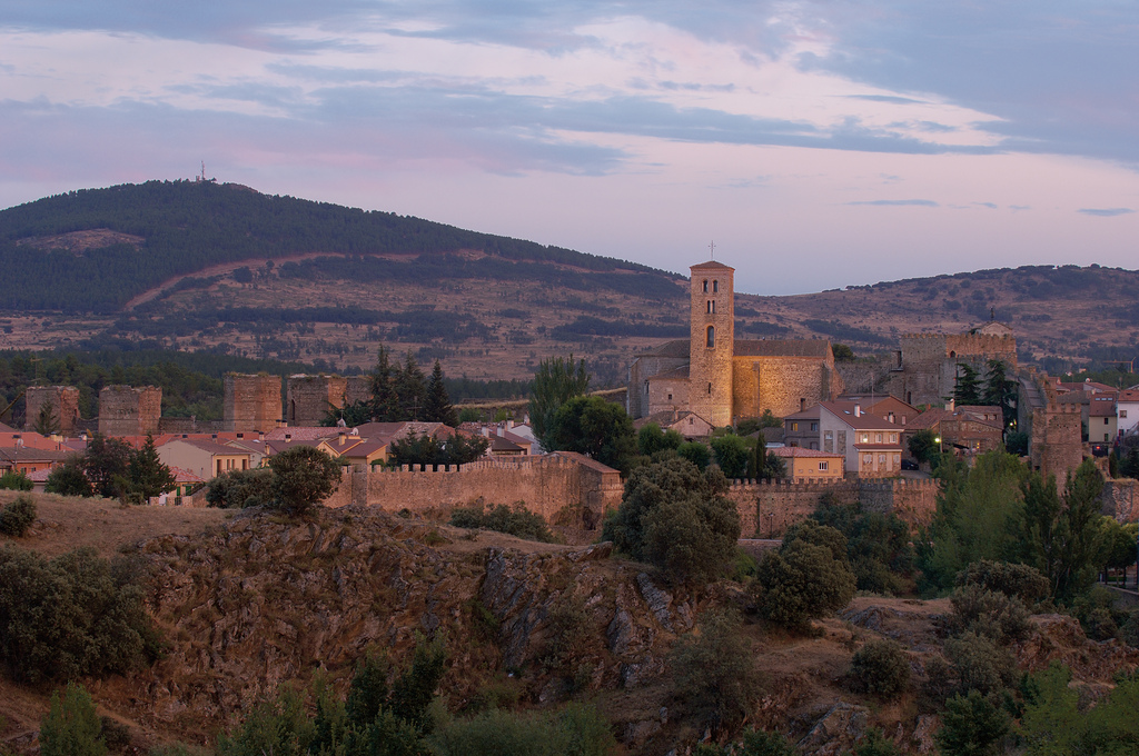 Buitrago de Lozoya Wall town This photograph can be used for publications, including this copyright statement: “©PromoMadrid, author Max Alexander”. Esta fotografía puede usarse en publicaciones, incluyendo la declaración “©PromoMadrid, autor Max Alexander”.